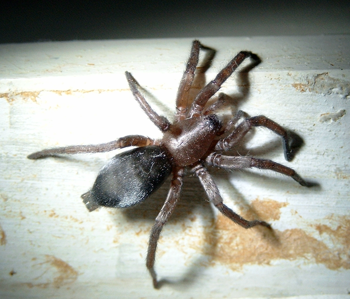 Spider of the Genus Scotphaeus, maybe Scotphaeus blackwalli